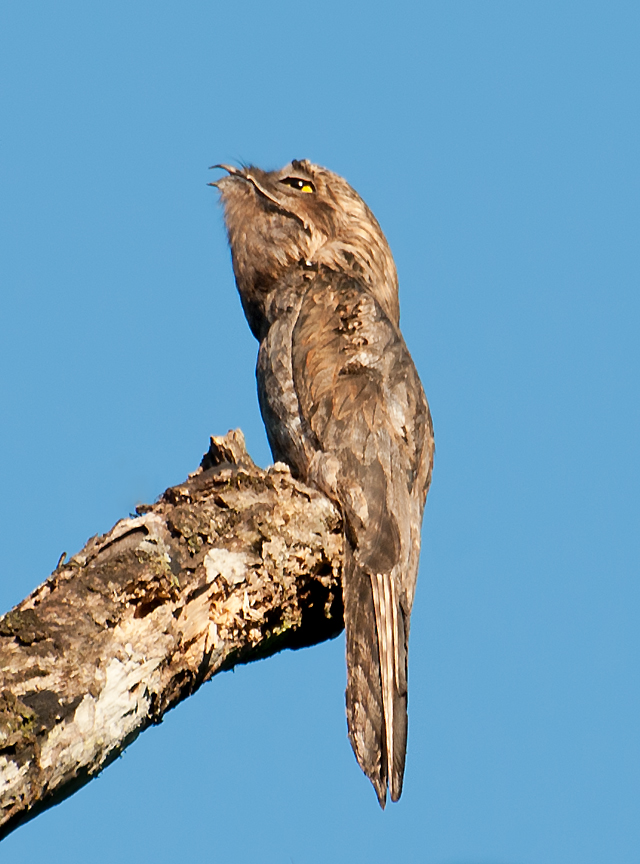 A Common Potoo in Registro, São Paulo, Brazil.